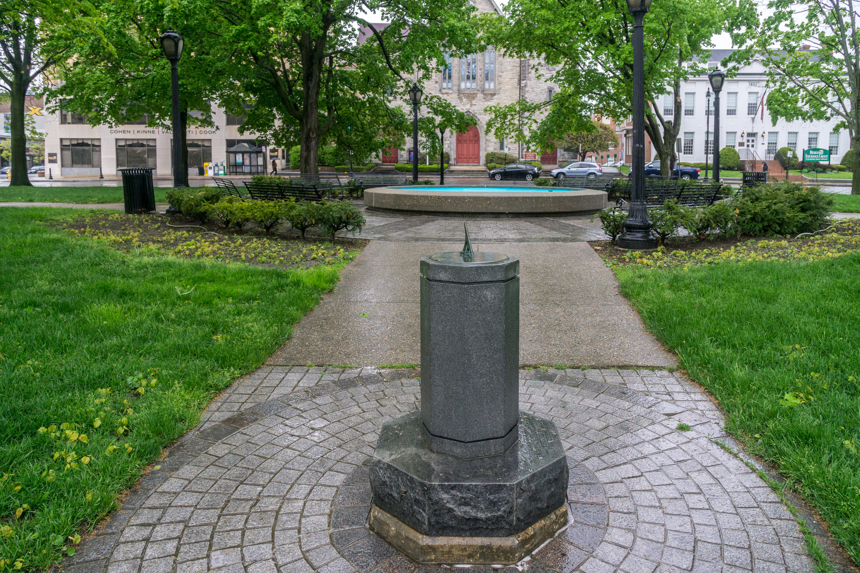 Sundial in Park Square, Pittsfield, Massachusetts